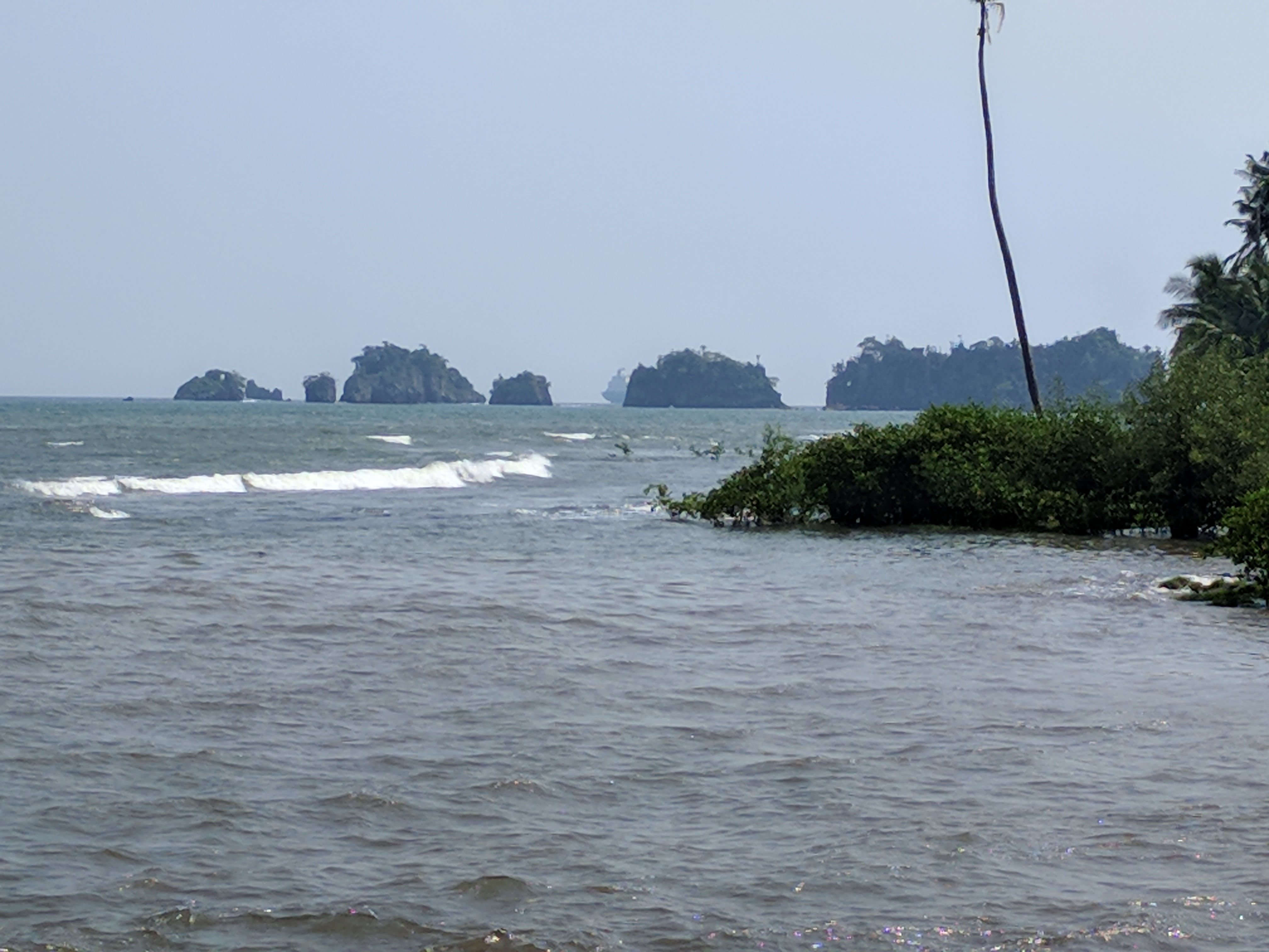 A view of Atlantic ocean with its geographical features from down beach Limbe ,South West Region of Cameroom